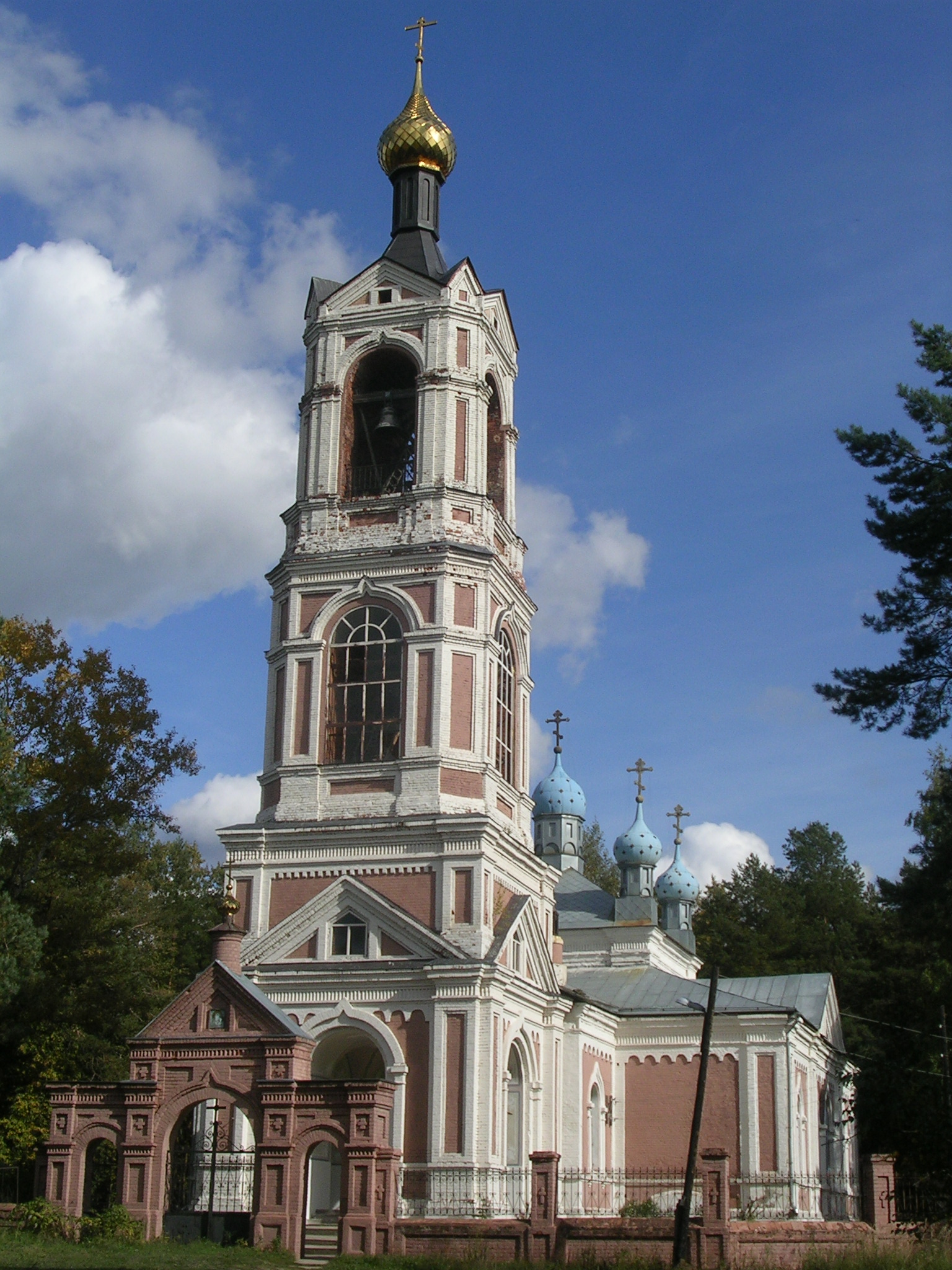 Theotokos of Kazan temple in Zarechye, Kirzhach district of Vladimir region, Russia. September 2010 photo. Храм Казанской иконы Божией Матери в селе Заречье Киржачского района Владимирской области. Вид с берега реки Шерны на западную часть храма.